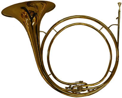 A hunting horn in Eb with a Bb stopping ventil/ Cor de chasse en Mi bémol